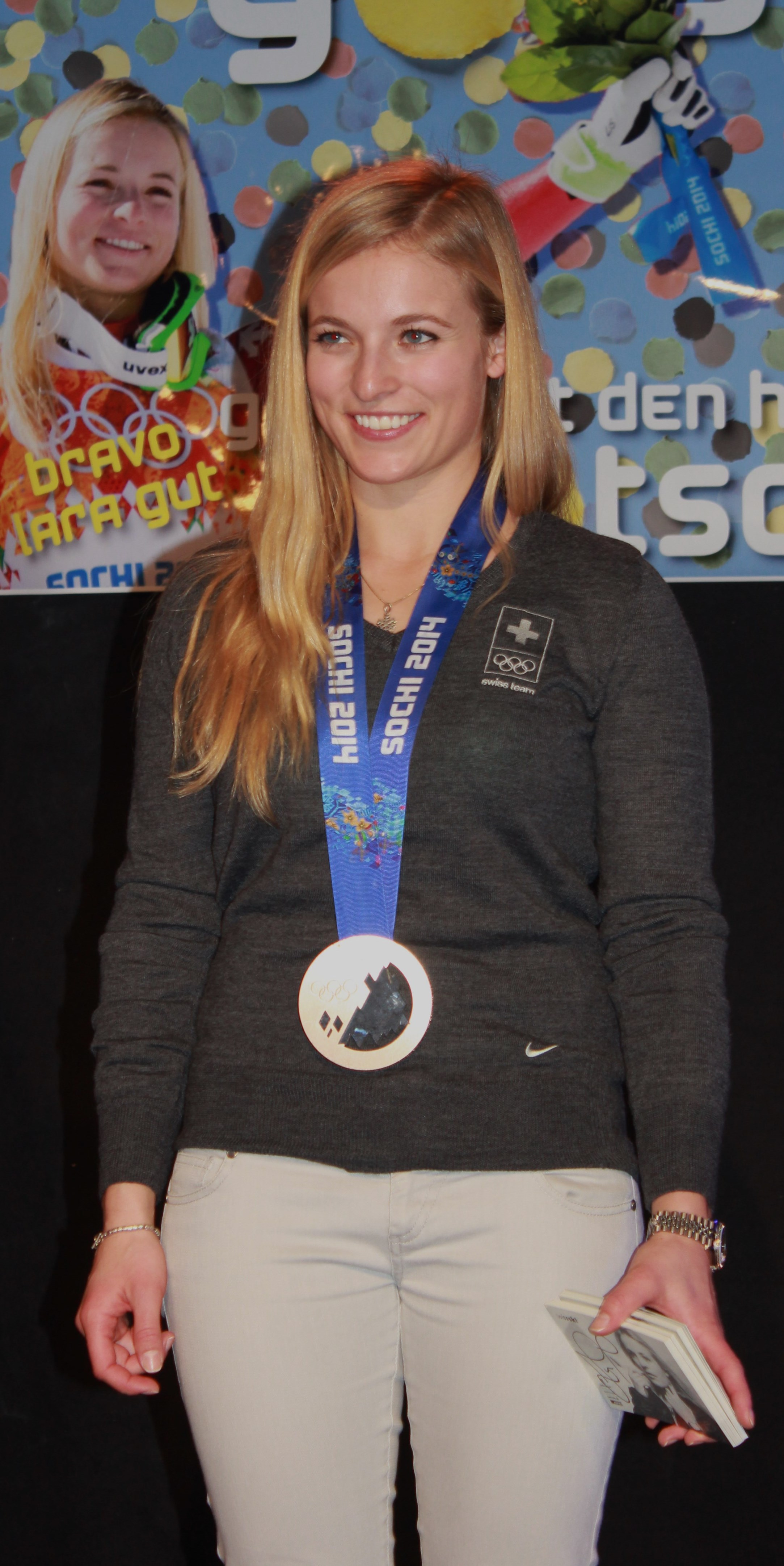 Lara Gut at a public reception in Central Switzerland after winning the Olympic bronze medal in the downhill (2014 Winter Olympic Games).